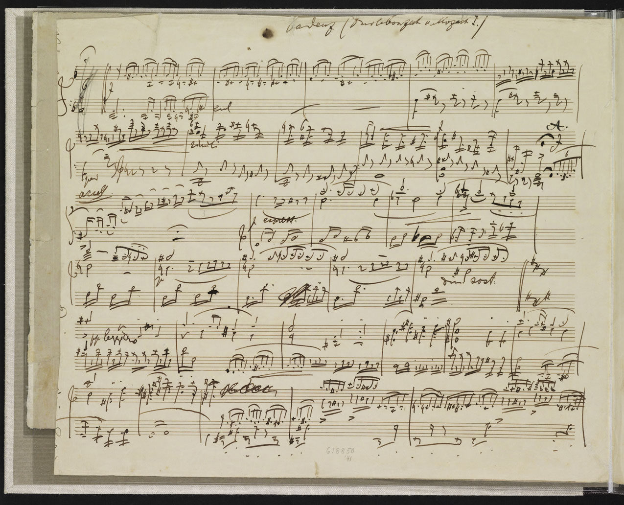 First page of music Wolfgang Amadeus Mozart - Piano Concerto No.20 in D minor, K.466 - Brahms cadenza - manuscript